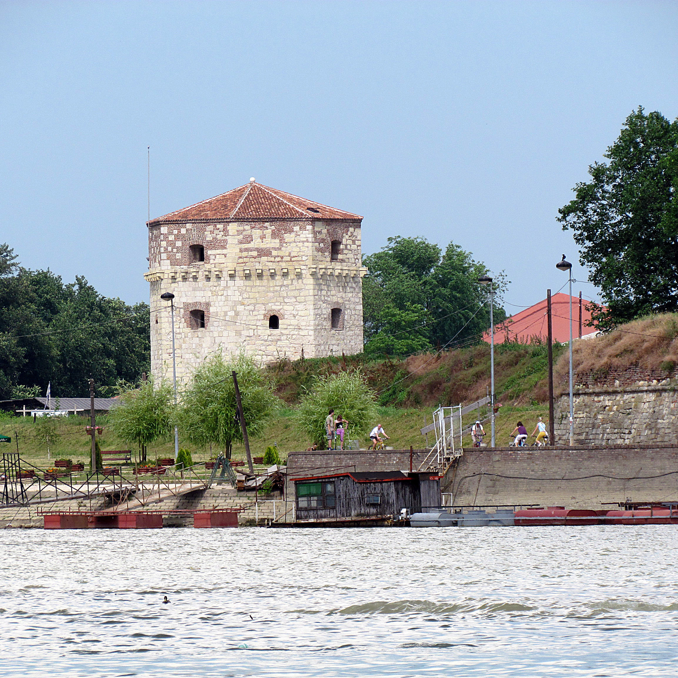 Nebojša Tower from New Balgrade side